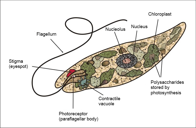 A diagram of Euglena by Claudio Miklos, labels translated from the Portuguese.